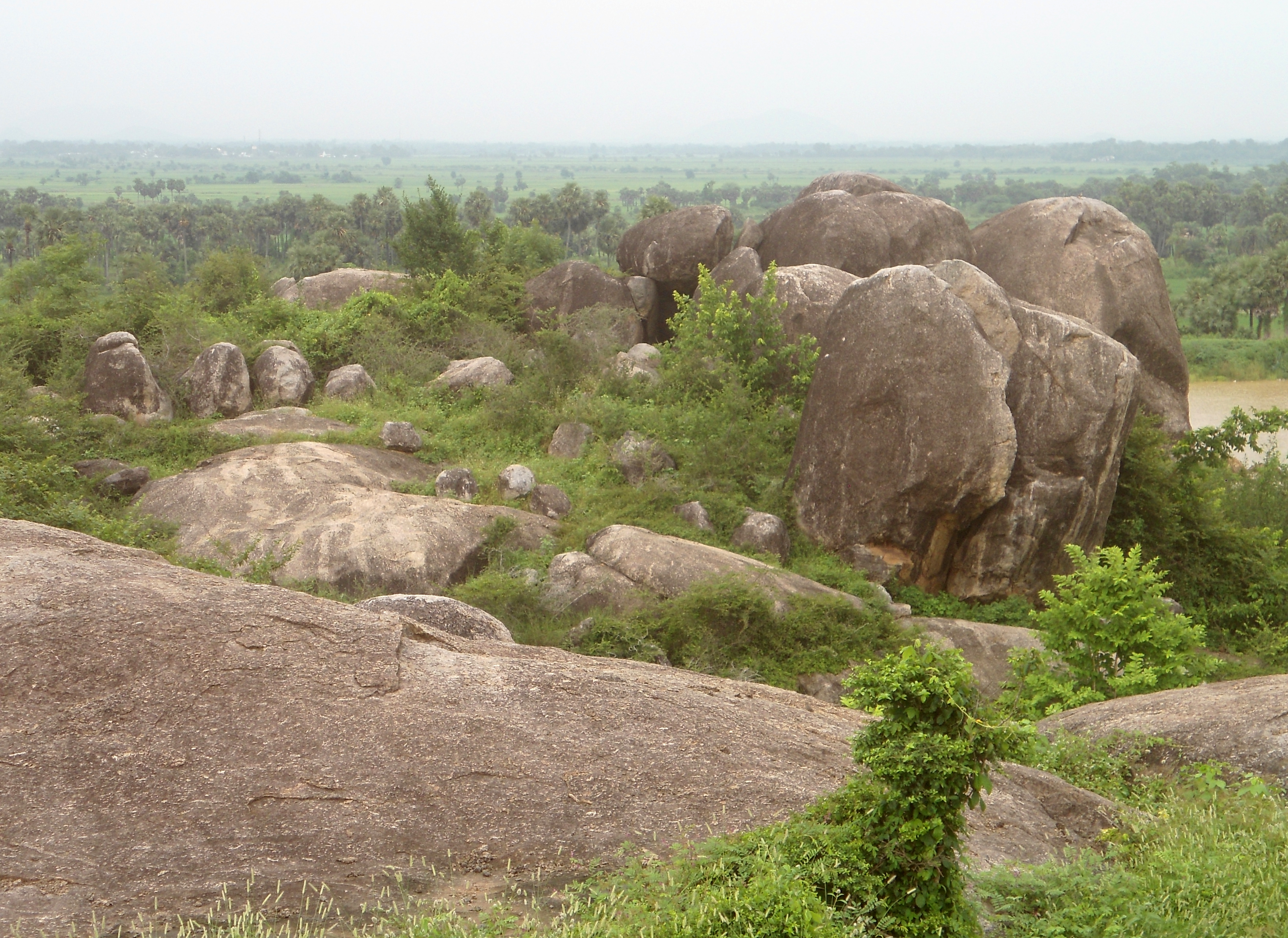 Prehistoric Rock shelters at Chittivalasa near Amudalavalsa, Srikakulam district, Andhra Pradesh